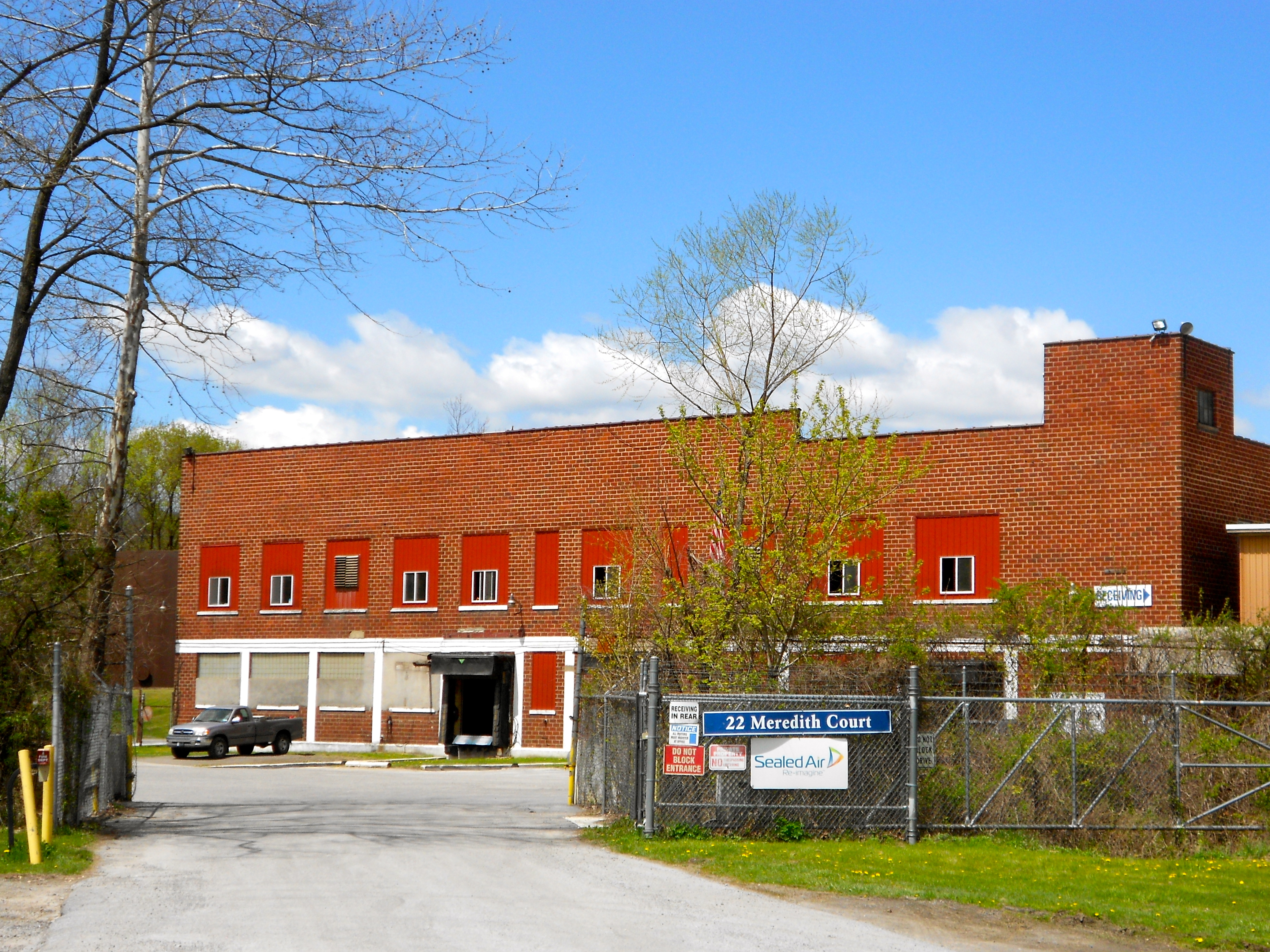 The Sealed Air plant in Modena, Pennsylvania, a small industrial town south of South Coatesville